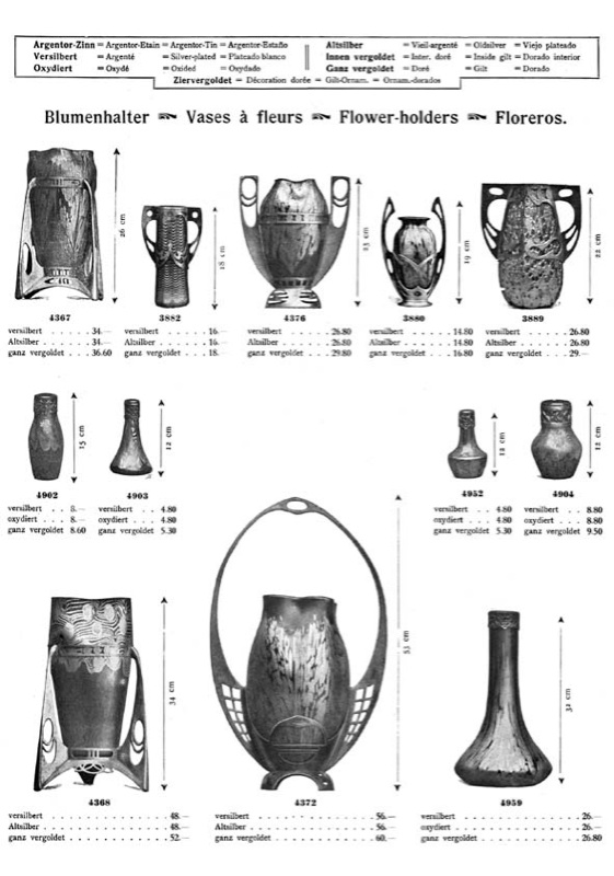 Page 67 of the pattern-book of the Argentor-Werke Rust & Hetzel in Vienna.